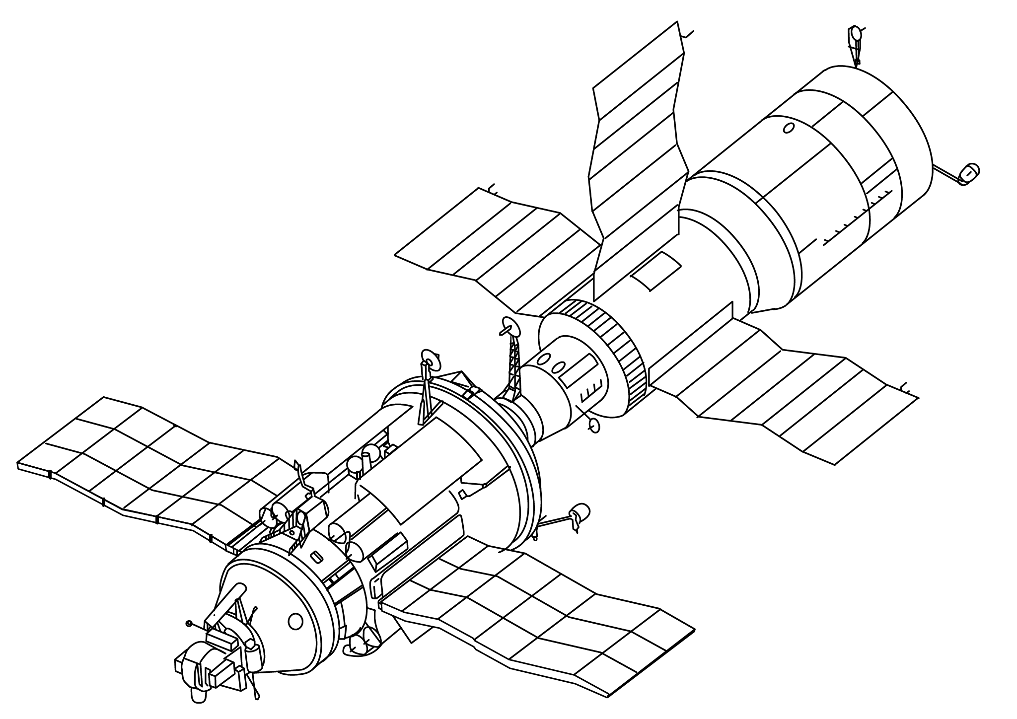 Figure 3-7. Cosmos 1686 and Salyut 7.